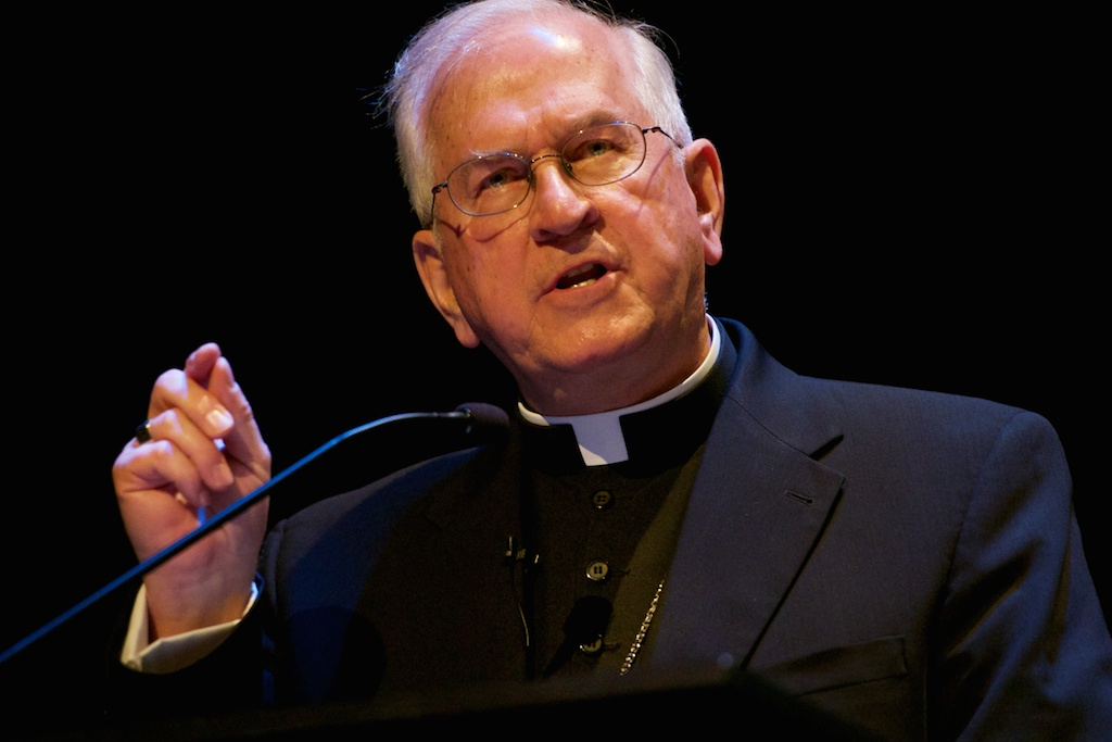 Archbishop Joseph E. Kurtz at 2016 Festival of Faiths